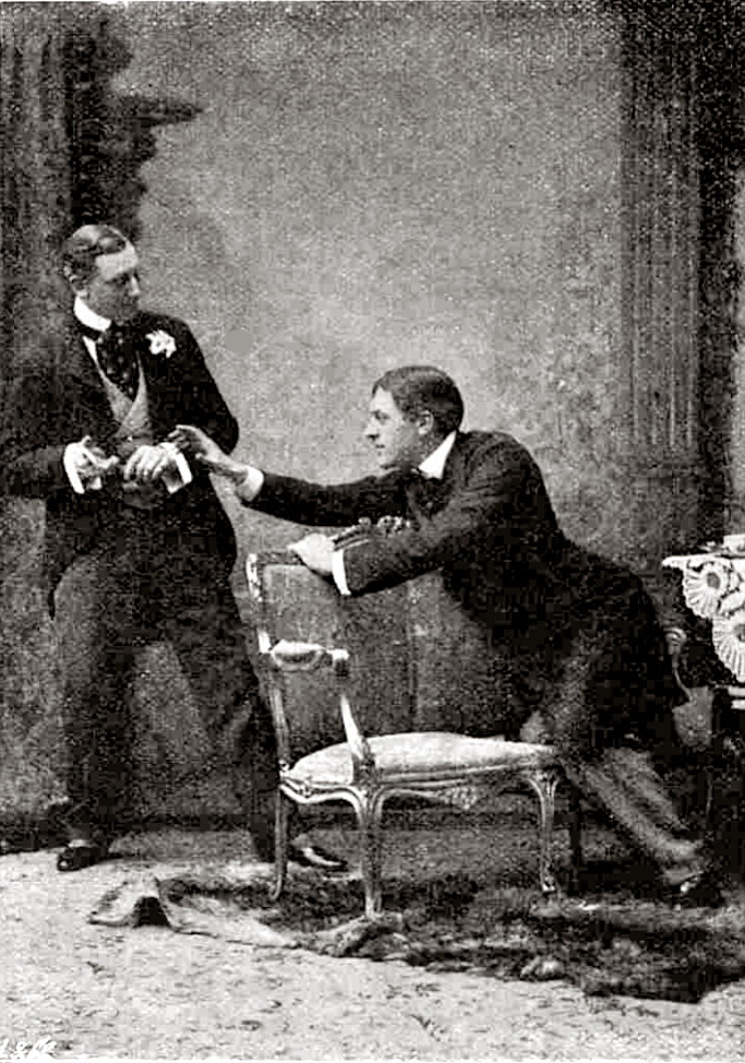 Still photograph from Act 1 of the original production of The Importance of Being Earnest (1895). It shows Algernon Moncrieff (left, played by Allan Aynesworth) refusing to return Mr Jack Worthing's (Sir George Alexander) cigarette case until the latter explains the inscription therein.